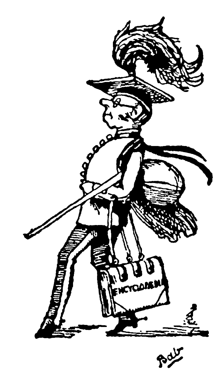 W. S. Gilbert's "Bab" drawing of the modern major general, c. 1880